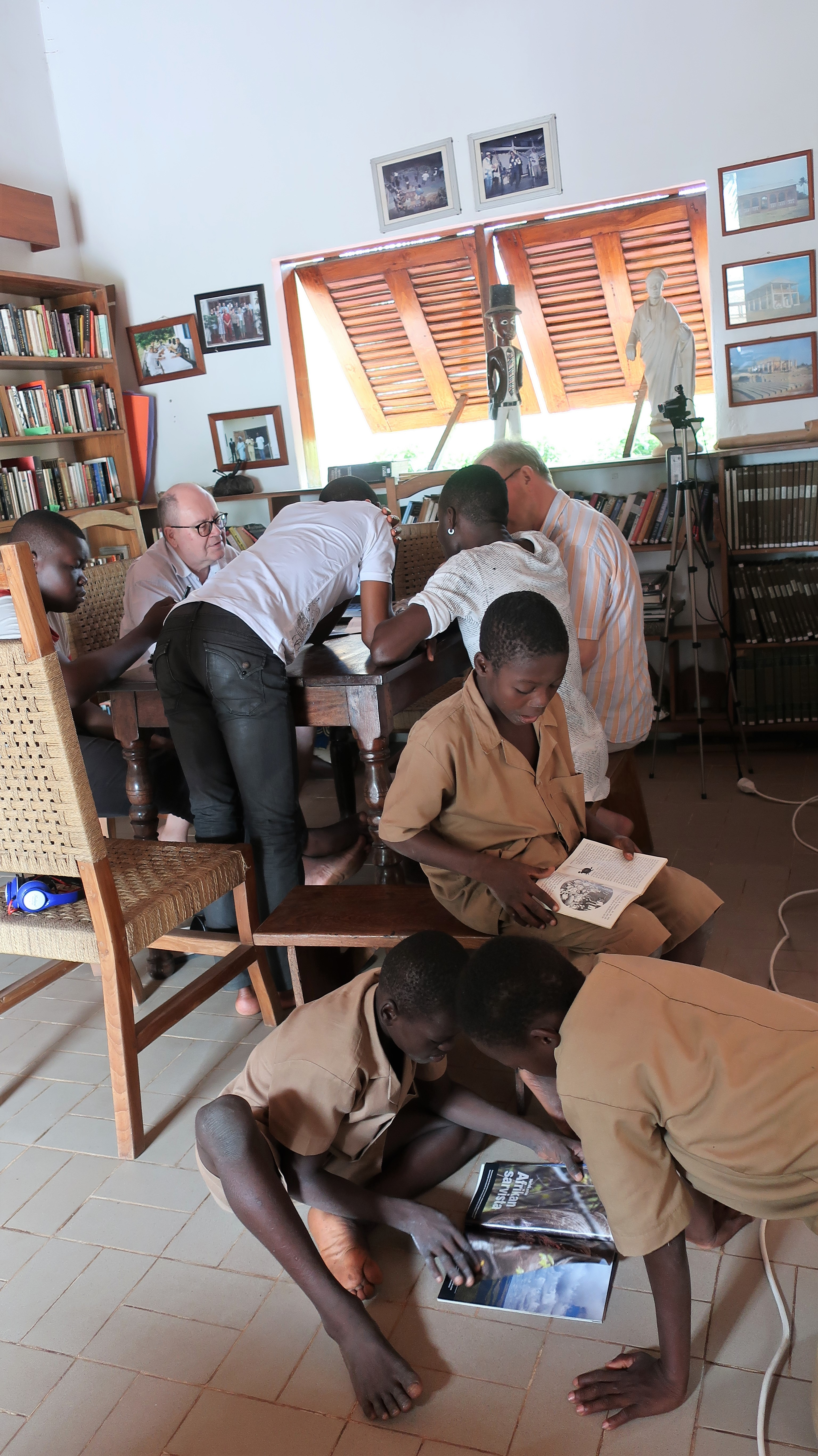 Users at the Library in Villa Karo African Finnish Cultural Center in Grand-Popo Benin, December 2017